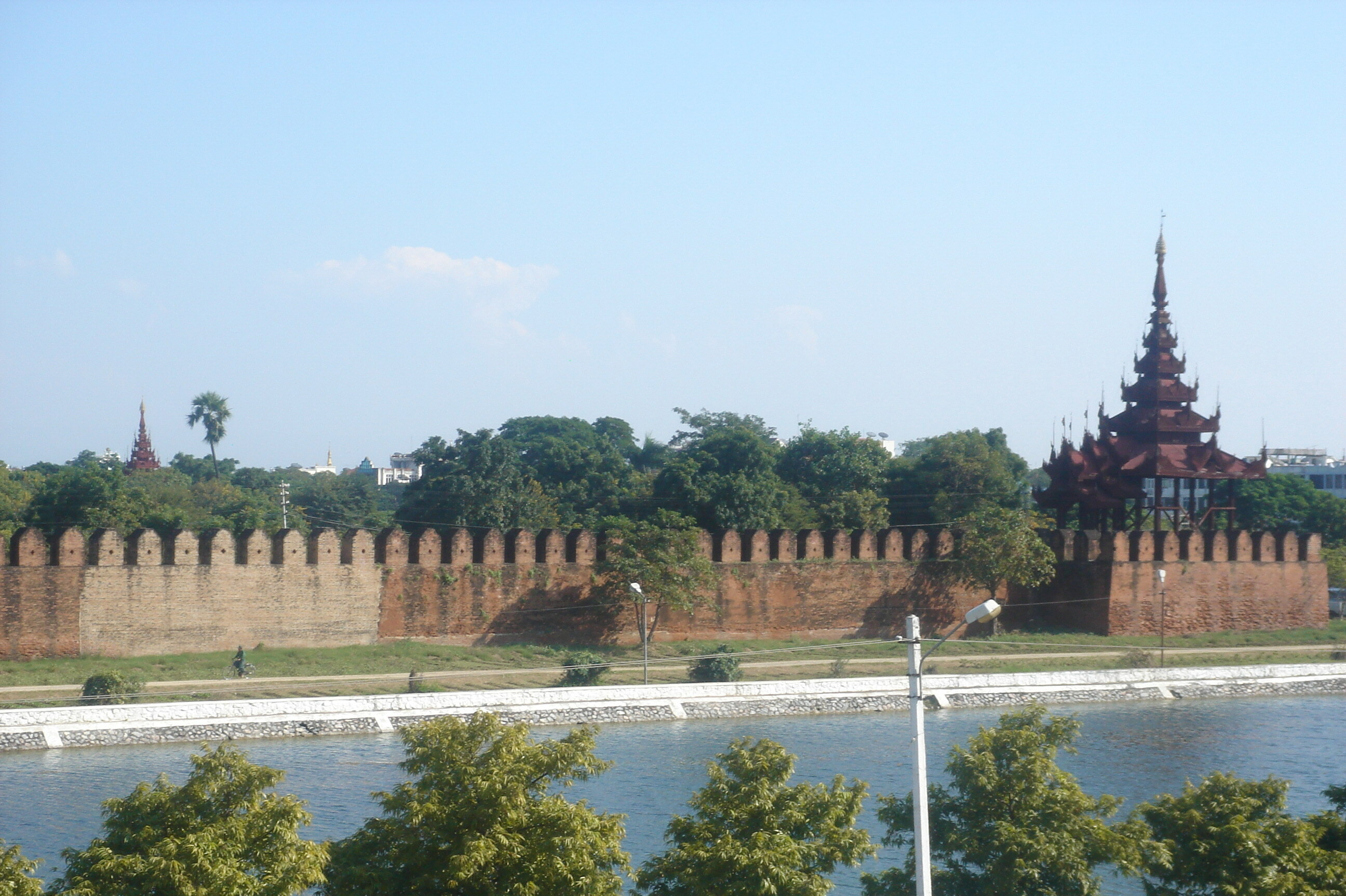 The Mandalay Palace, Mandalay, Myanmar.